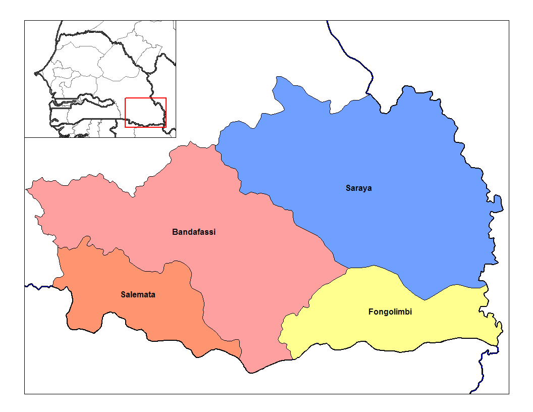 Map of the arrondissements of Kedougou department in Senegal.